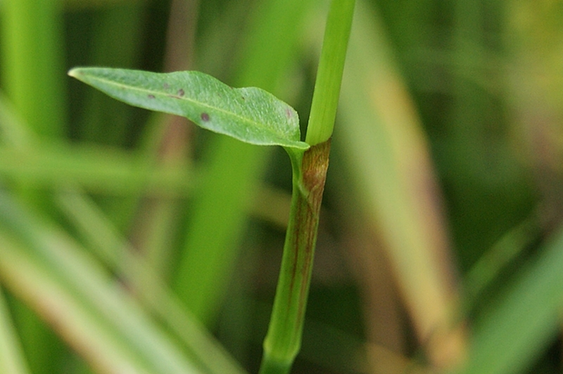 Bistorta officinalis, Germany.